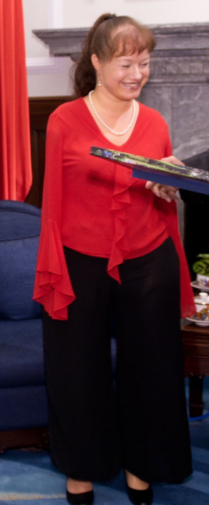 President Ma meets disabled Swedish artist Lena Maria Klingvall. (2011/10/13)